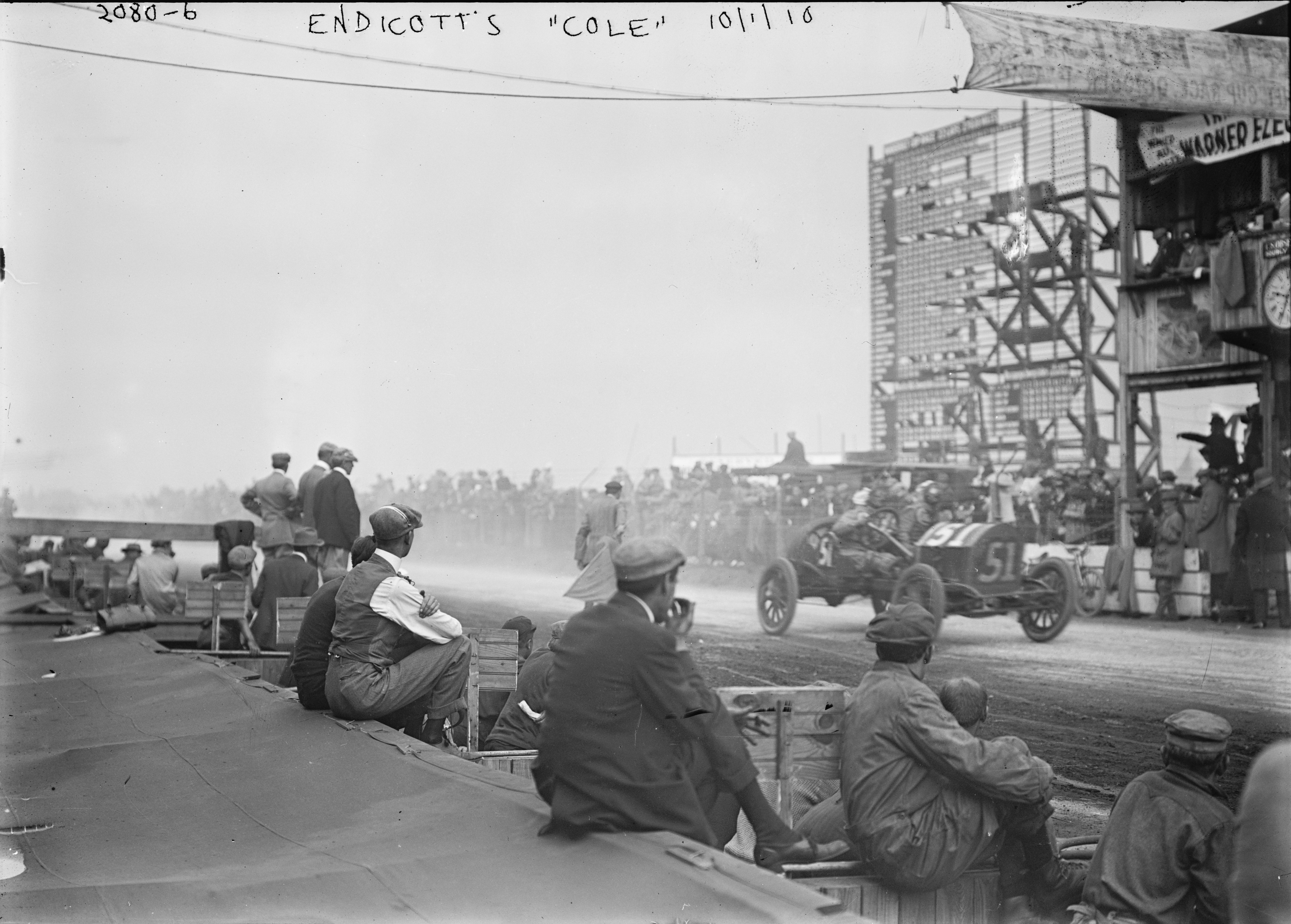 Bill Endicott, American racecar driver, in “Cole 30 Flyer”; Vanderbilt cup (Massapequa Sweepstakes) winner 1910